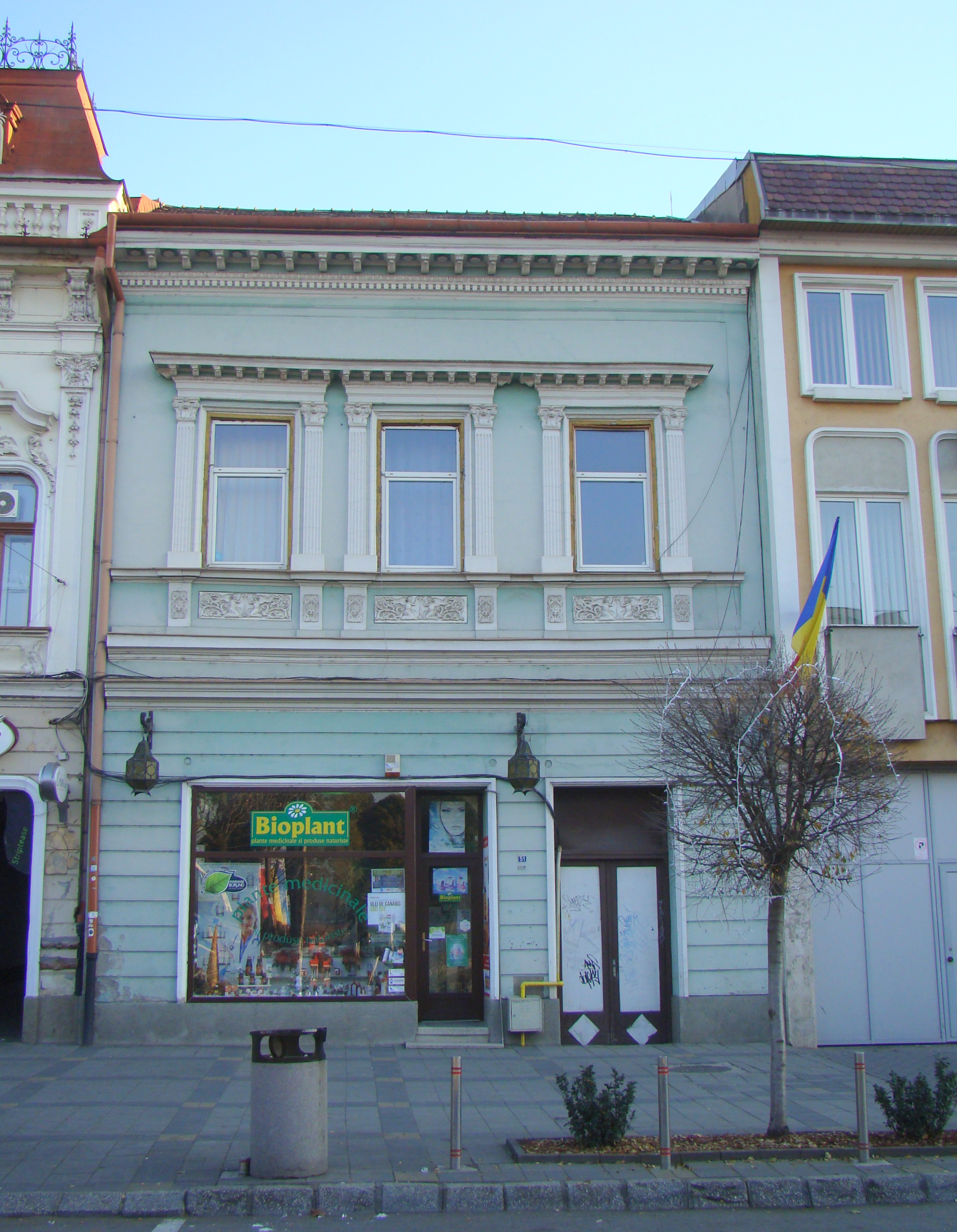 House, historic monument, in Târgu Mureș, Piața Trandafirilor 51